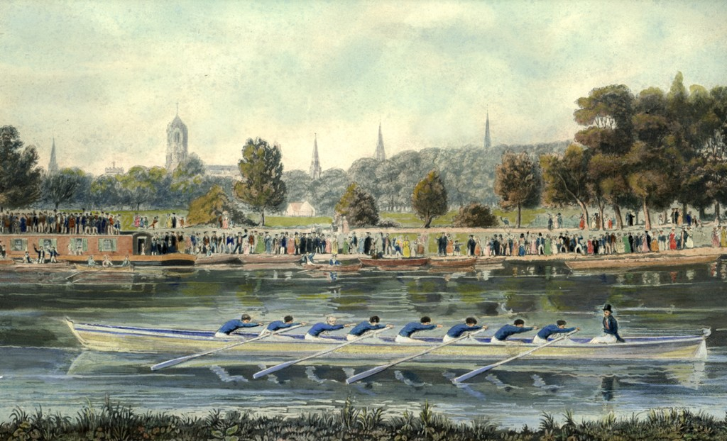 Merton College, Oxford - aquatint - published by Davis 1839 Possibly one of many copies and colored variants of the depiction of the Exeter College, Oxford boat of 1825